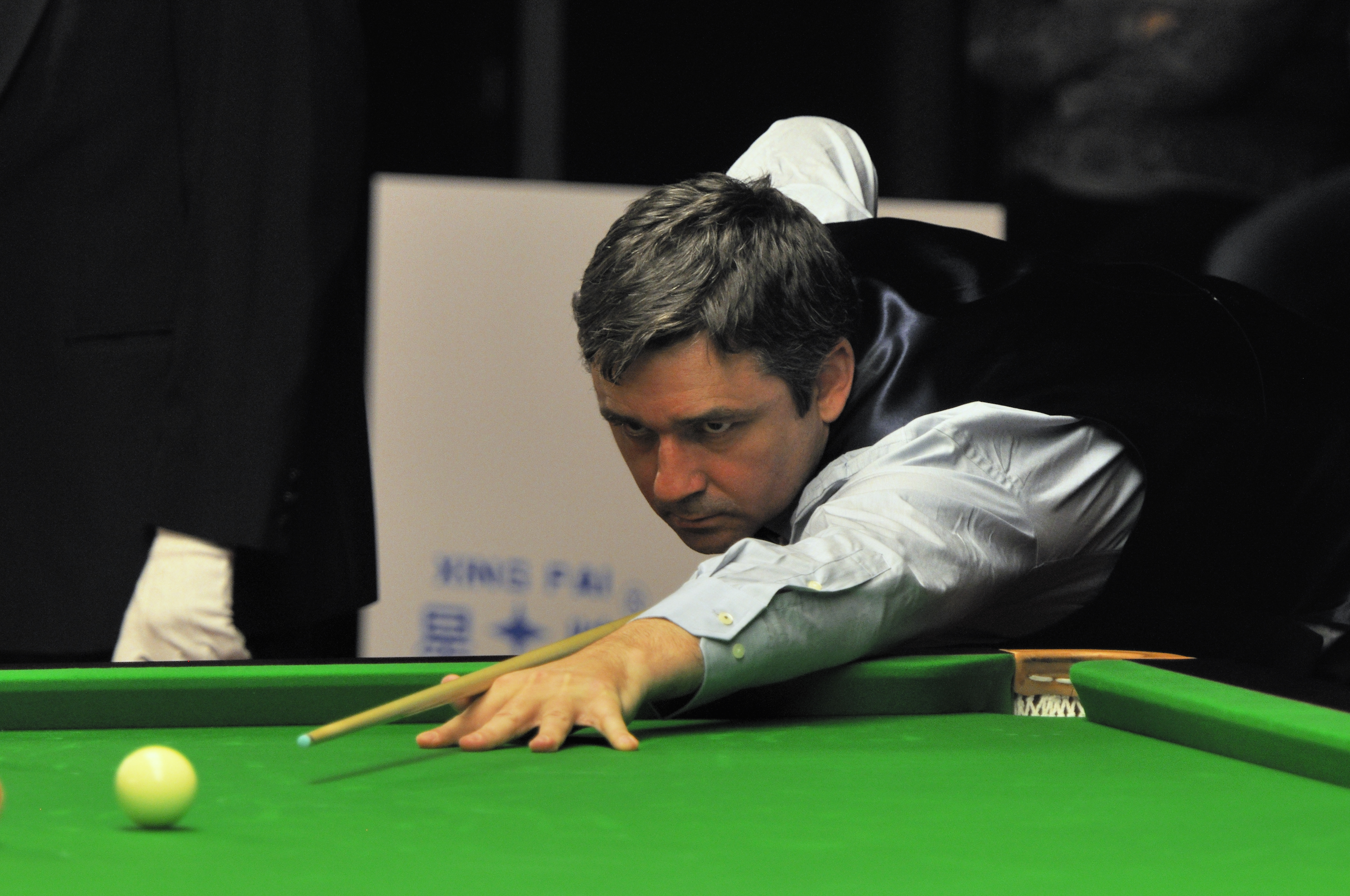 Picture taken in Berlin during the Snooker German Masters in 2014. Alan McManus.